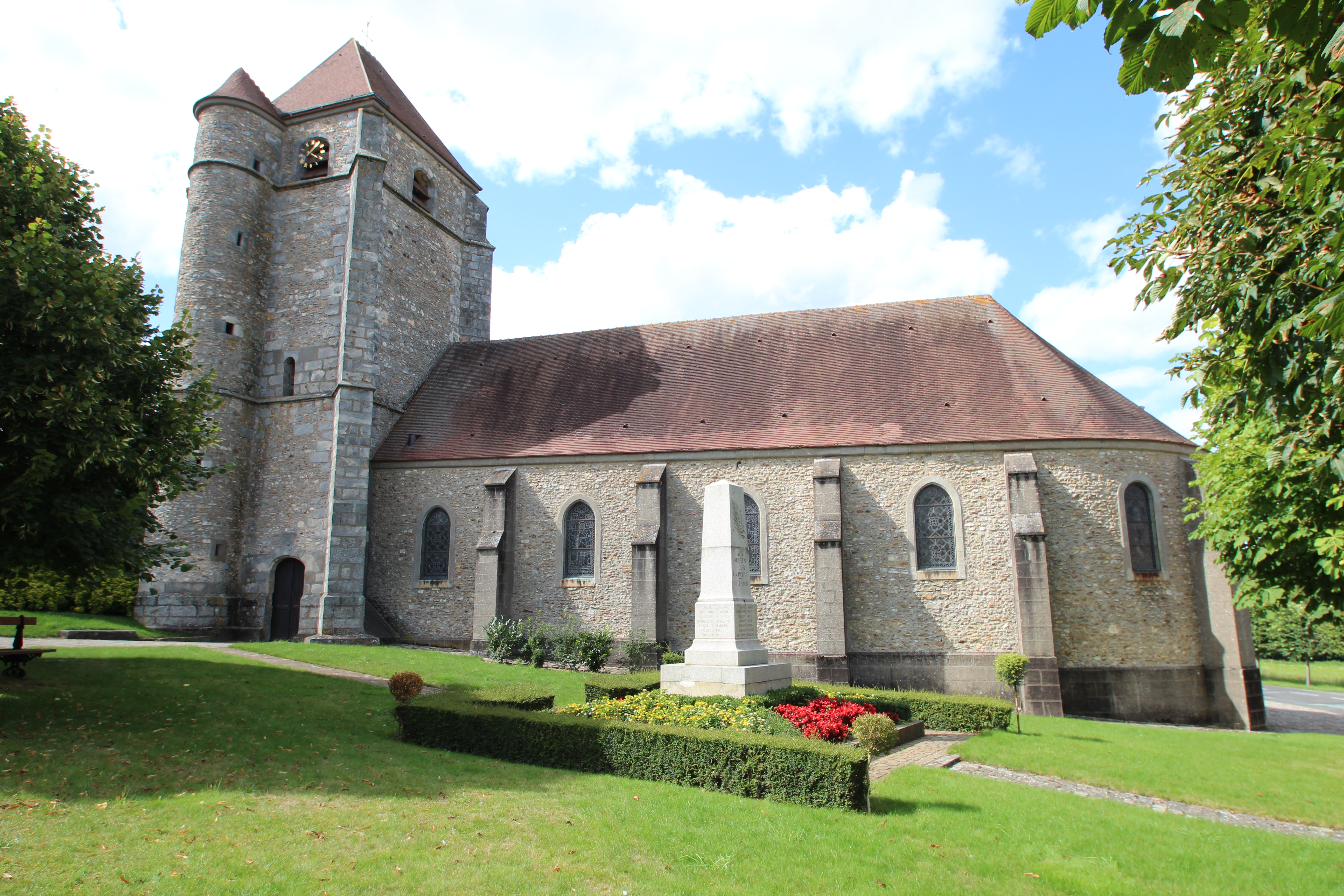 Sainte-Monégonde church in Orphin, France. Object location48° 34′ 48.18″ N, 1° 46′ 55.24″ E .